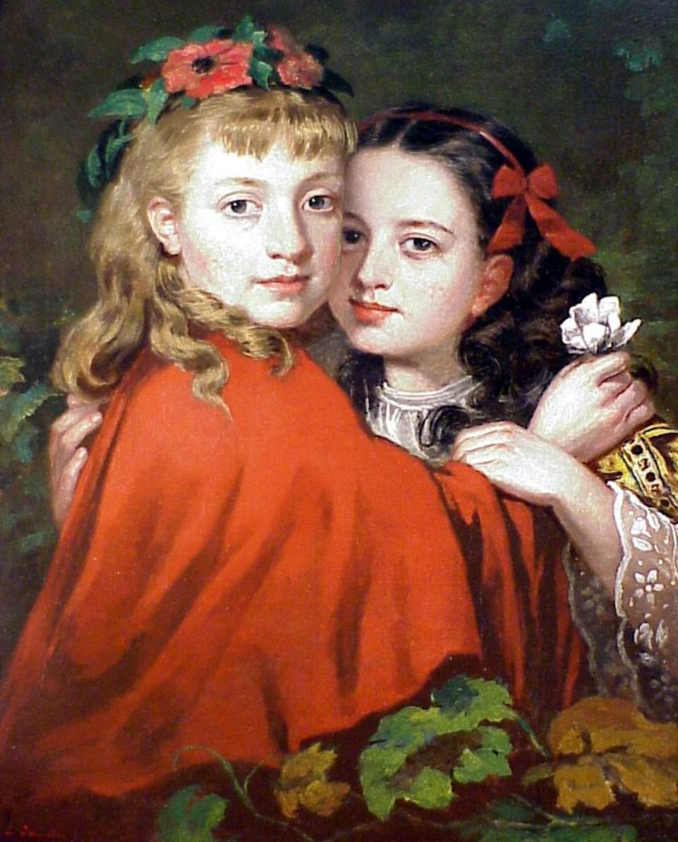 The Sisters